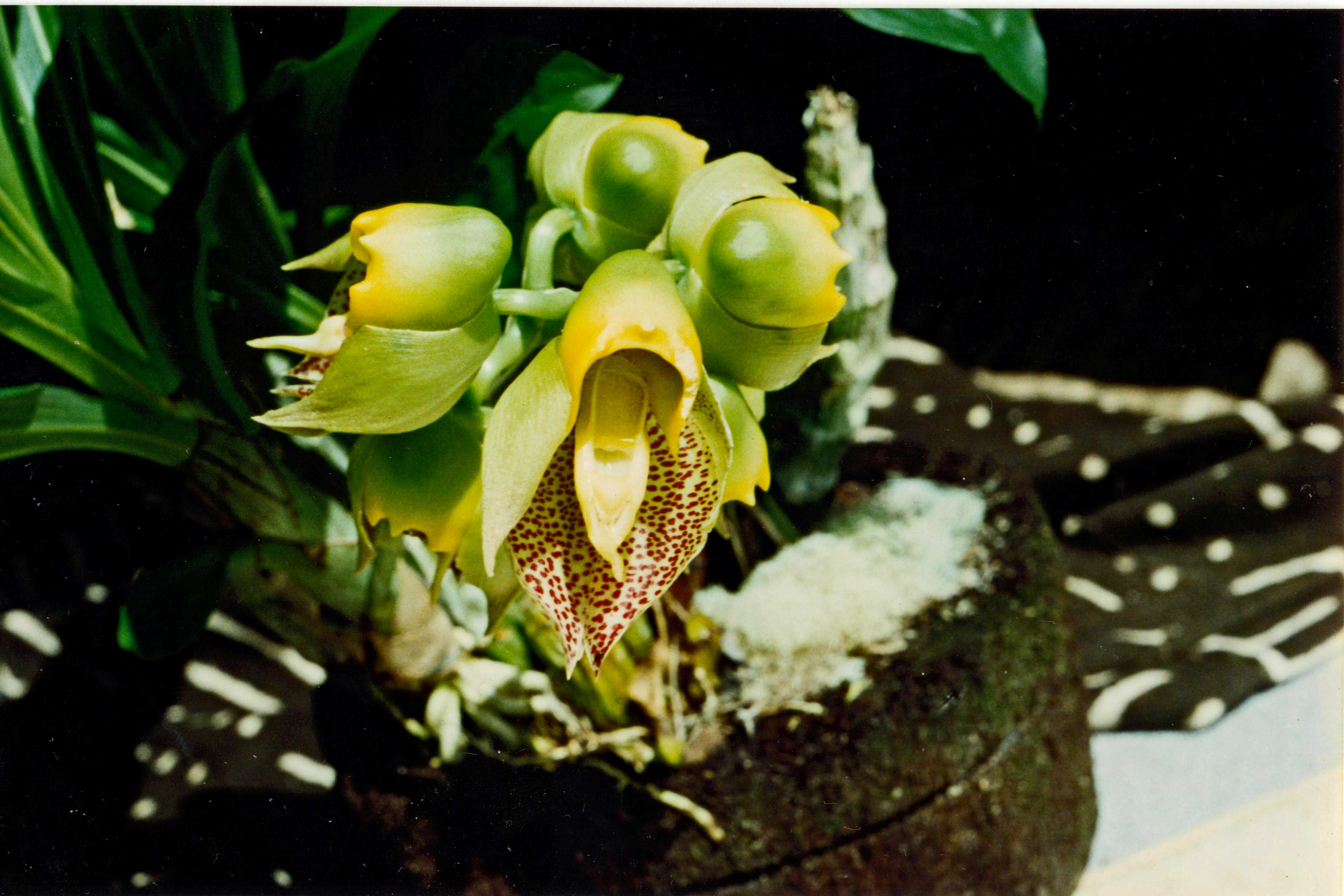 Catasetum macrocarpum, male flowers.